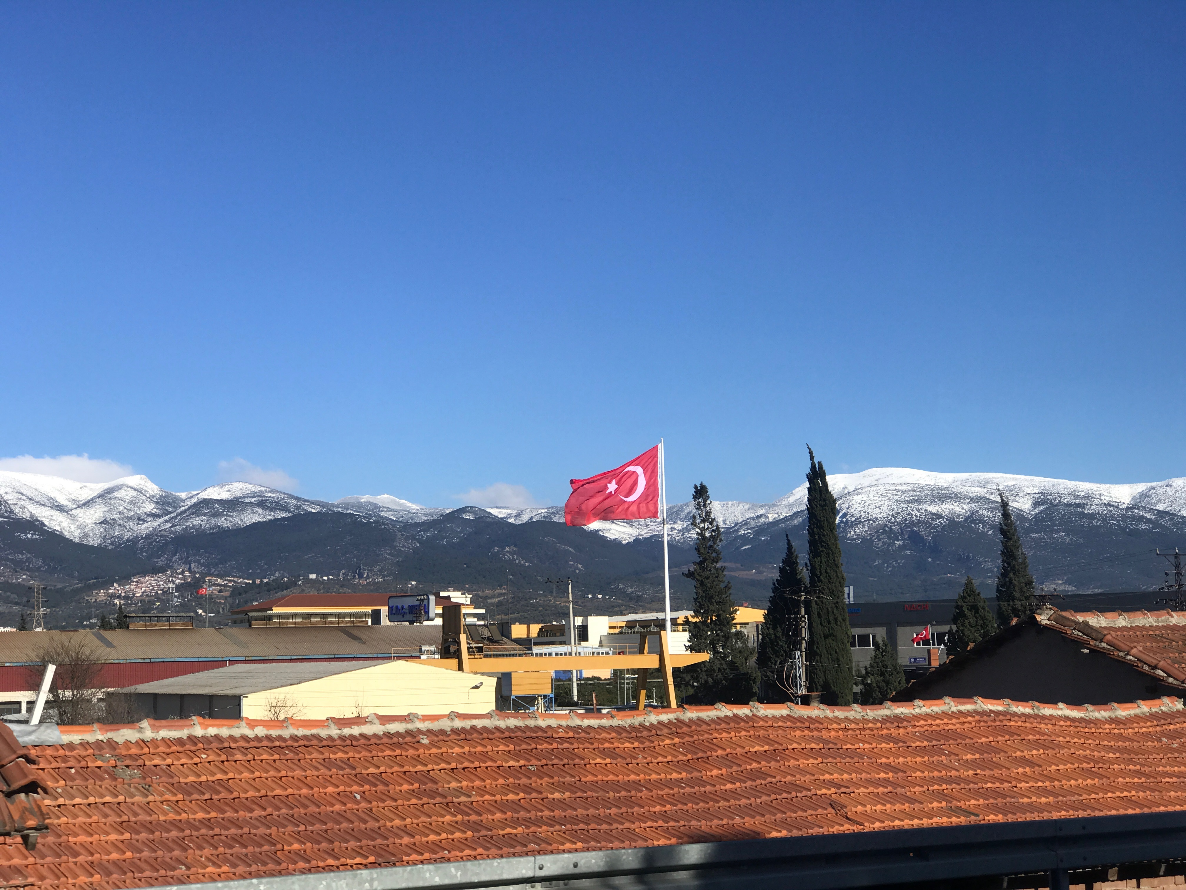 Kemalpaşa, İzmir, Turkey in winter.